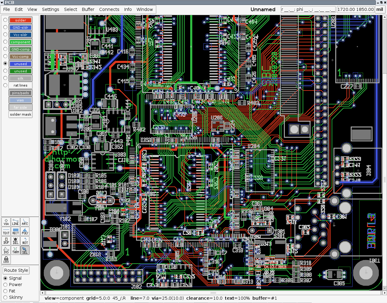 PCB layout editor